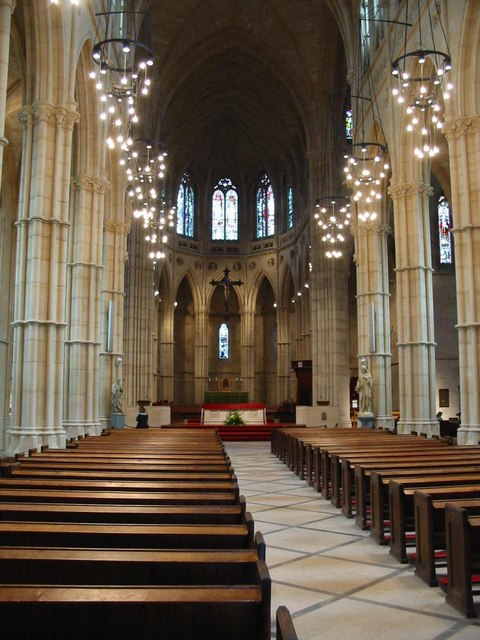 The interior of Arundel cathedral